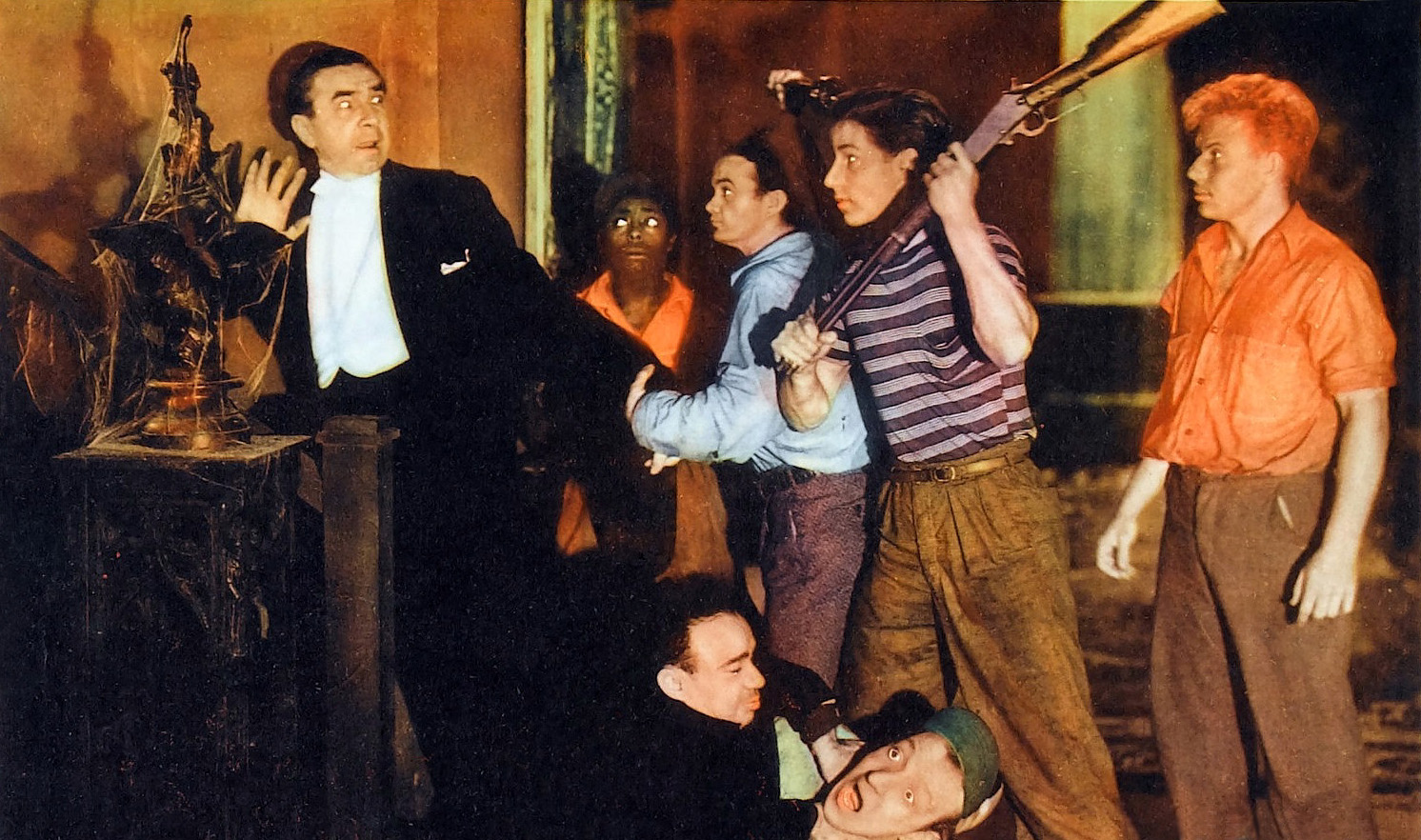 Cropped and edited lobby card for the American movie Spooks Run Wild (Monogram, 1941) featuring Bela Lugosi. As a low budget comedy-thriller, the film allowed Lugosi to parody his most famous role. Lobby card dated to a 1949 re-release.